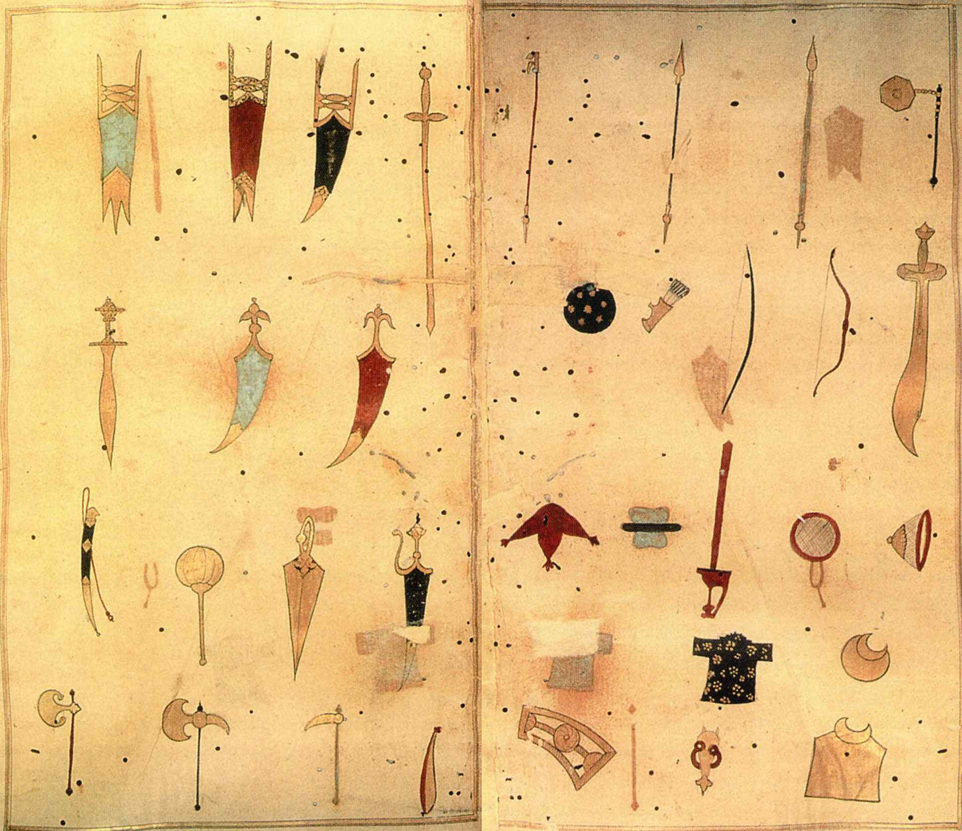 Weapons of India: 1 row: jamdhar sehlicaneh (3-pointed dagger), jamdhar doulicaneh (2-pointed dagger), jamdhar (broad dagger), baneh (sword), javelin, tschehouta (spear), barchah (lance), flail.2 row: katarah (katarsh, dagger), jhanbwah (jambiyah, dagger), khapwah (k'hapwah, dagger), dhal (shield), tarkash (quiver), maktah (bow), kaman (bow), scymitar.3 row: gupti kard (dagger), shushbur (shashpar, mace), narsingmot'h (dagger), bank (dagger), g'hug'hwah (chainmail), udanah, bhelhetah (sword), phari (cane shield), sipar (shield).below: angirk'hah (over armour coat), zirih (coat of mail), kant'hah sobha (neck protection).4 row: tarangalah (axe), tabar-zaghnol (axe with hammer), zaghnol (warhammer), chaqu (clasp knife), gardani (horse protection), qashqah (champron), bhanju (coat with neck protection).